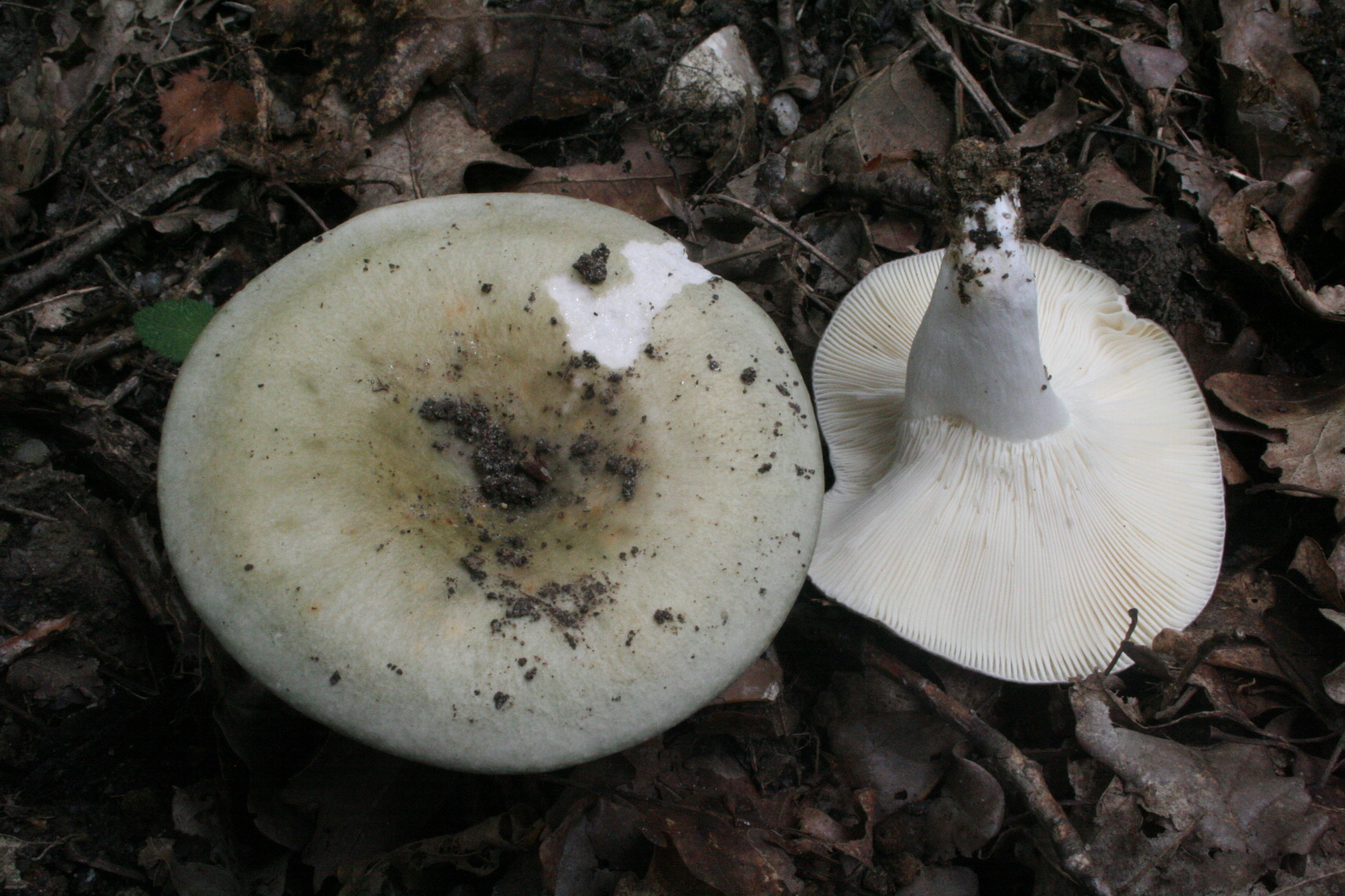 Russula heterophylla in a wood near Rambouillet, France.